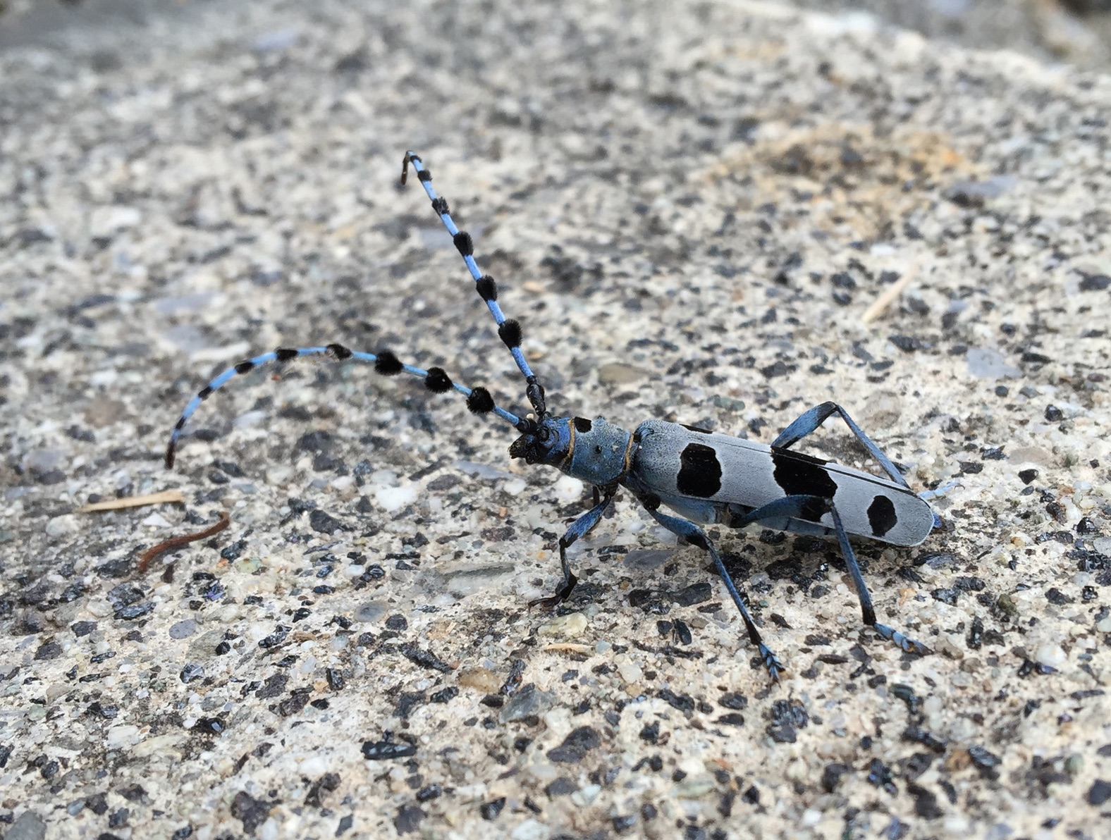 Rosalia alpina